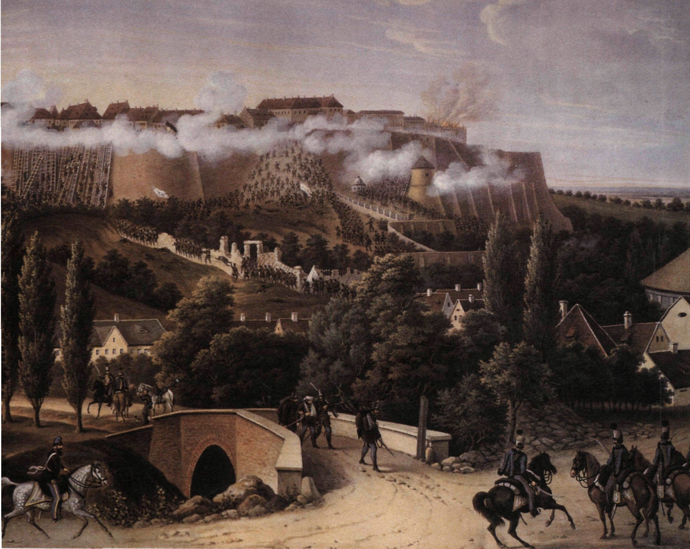 Bombardment and assaoult of the Castle of Buda 1849